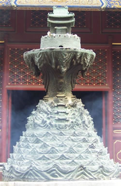 Sculpture of the Mount Meru in the Lama temple (or Yonghe temple) in Beijing, China